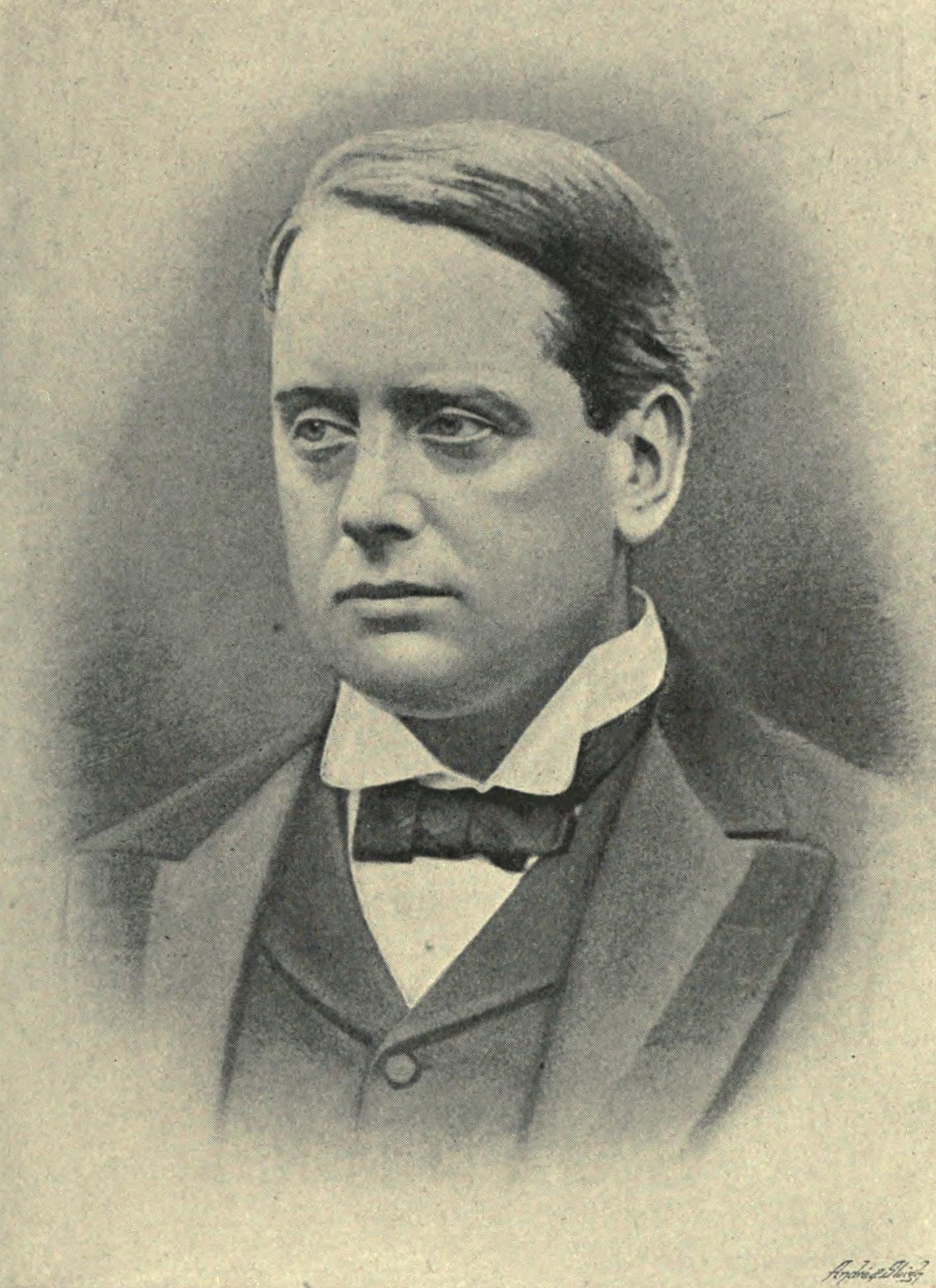 Portrait of Archibald Primrose, 5th Earl of Rosebery